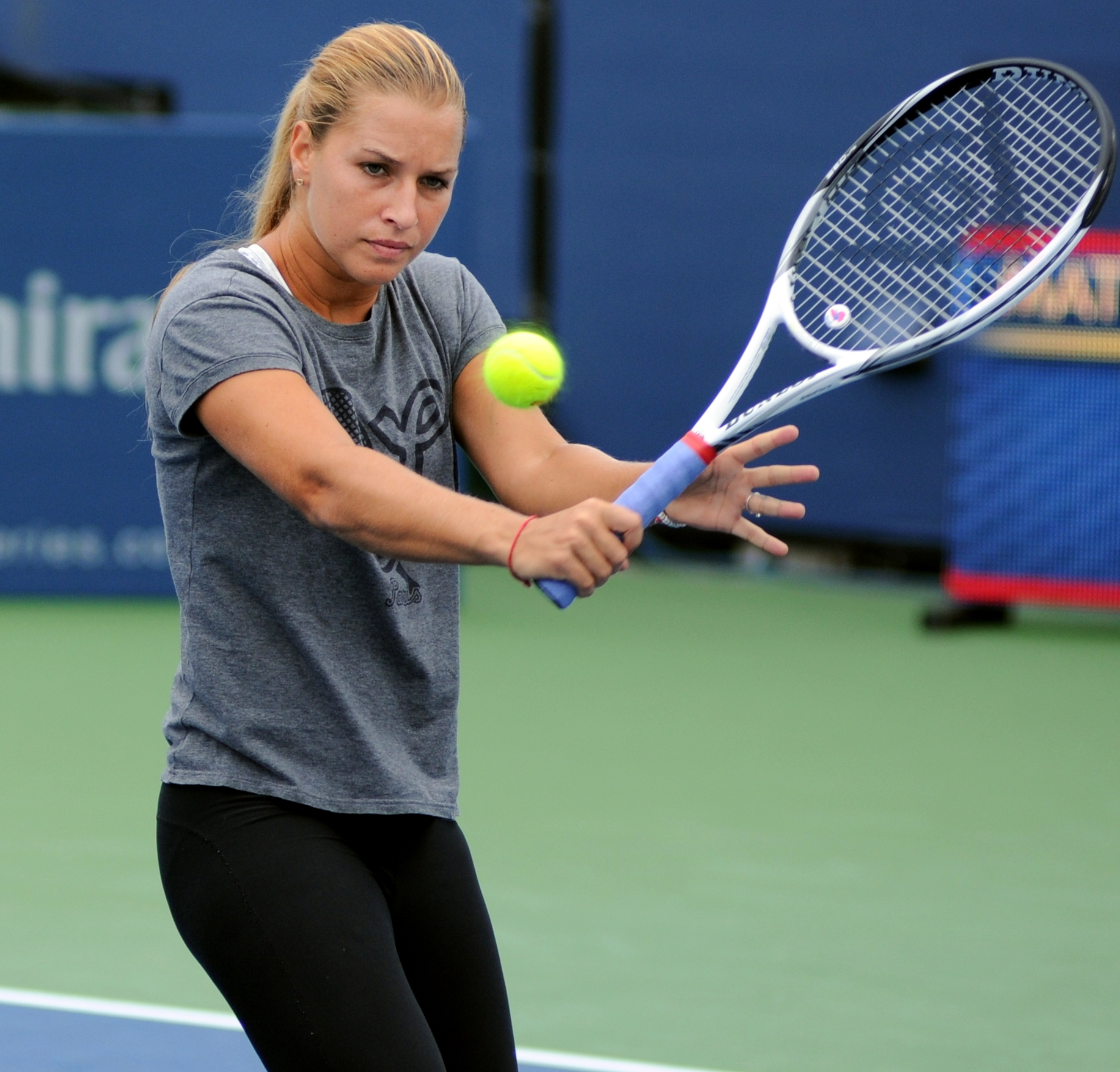 Dominika Cibulková - Practice courts at the 2013 Southern California Open